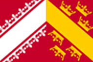 old alsace flag